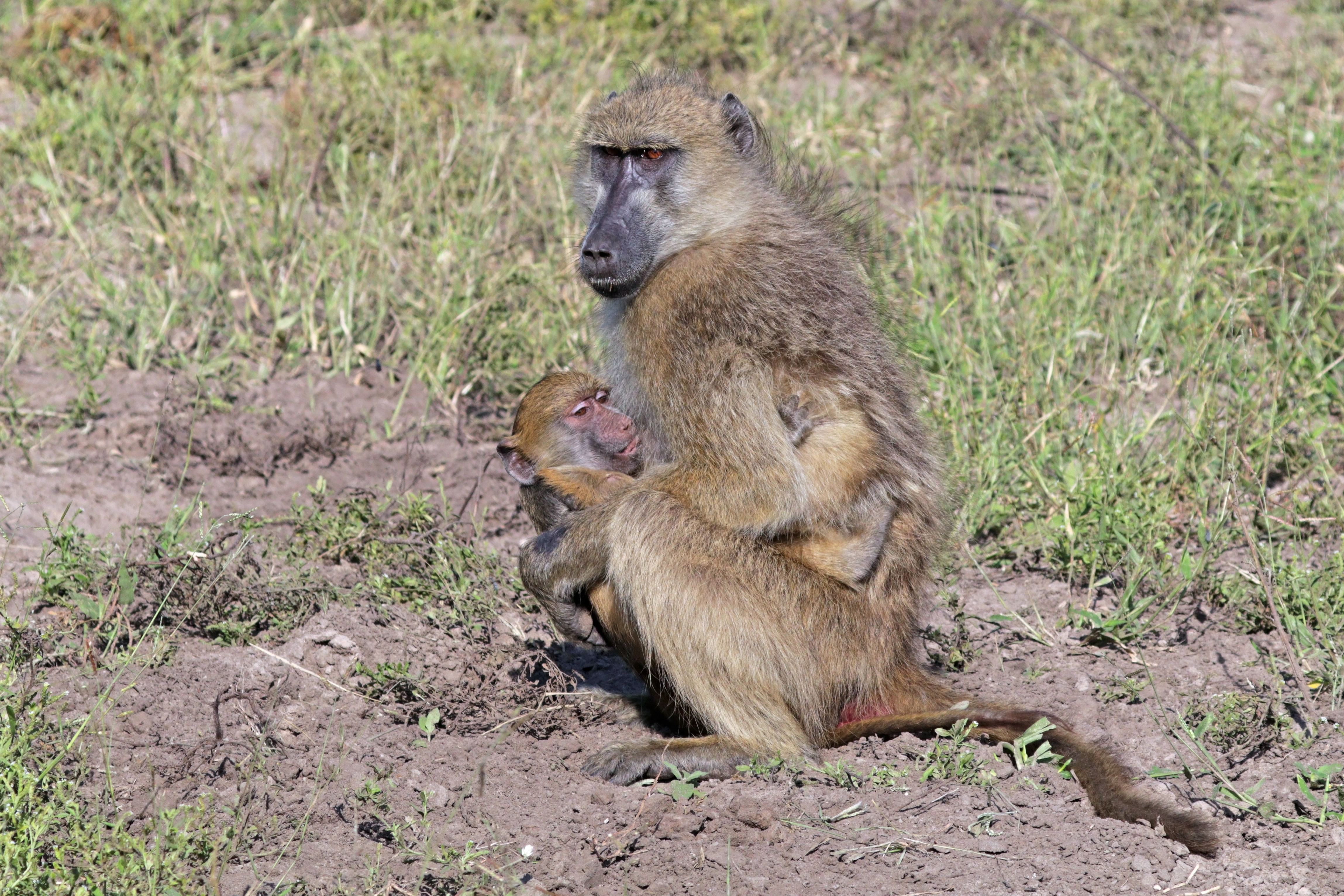 Chacma baboon (Papio ursinus griseipes) suckling, Chobe National Park, Botswana